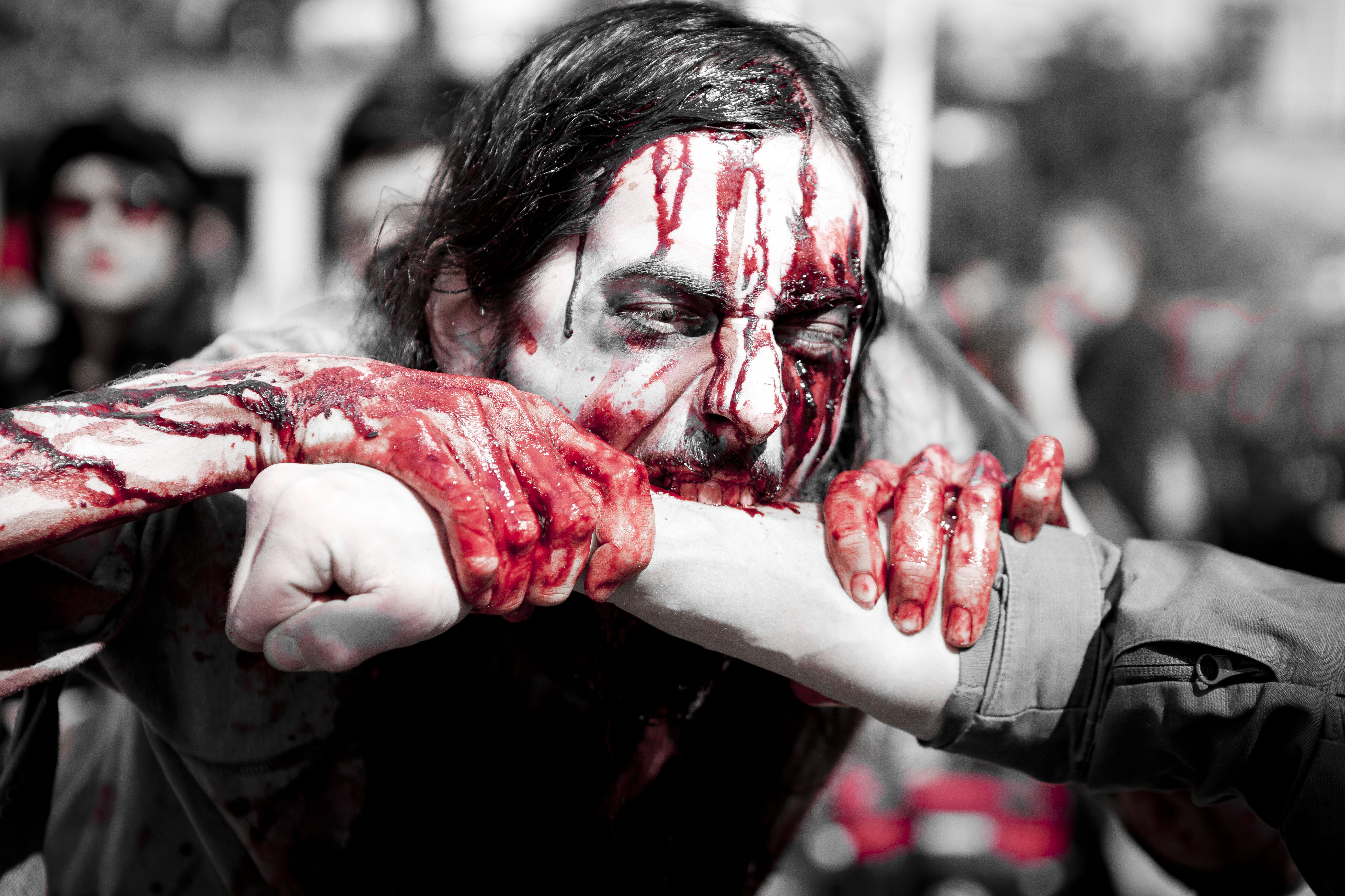 Zombie Walk